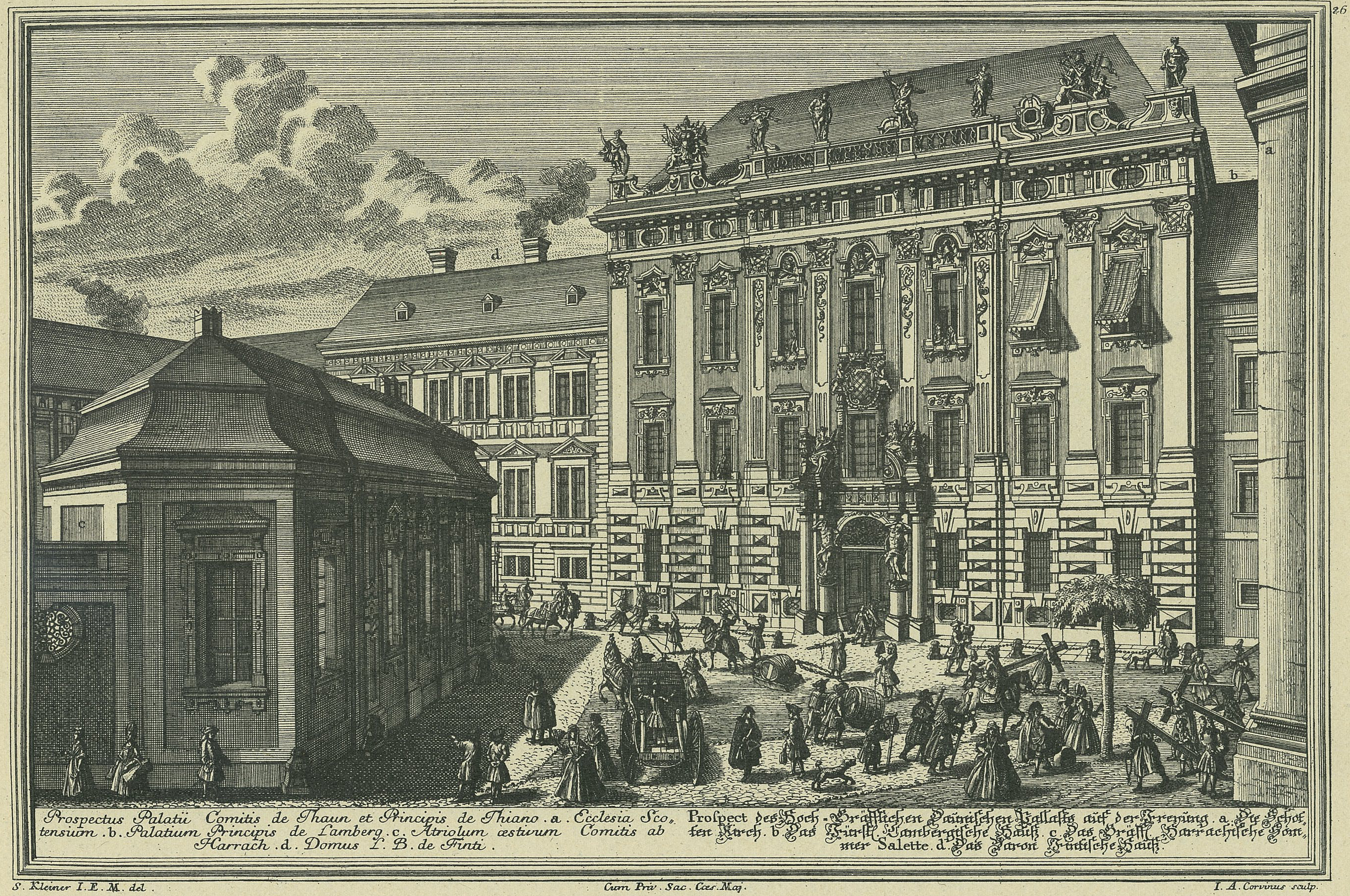 Palais Kinsky by Salomon Kleiner